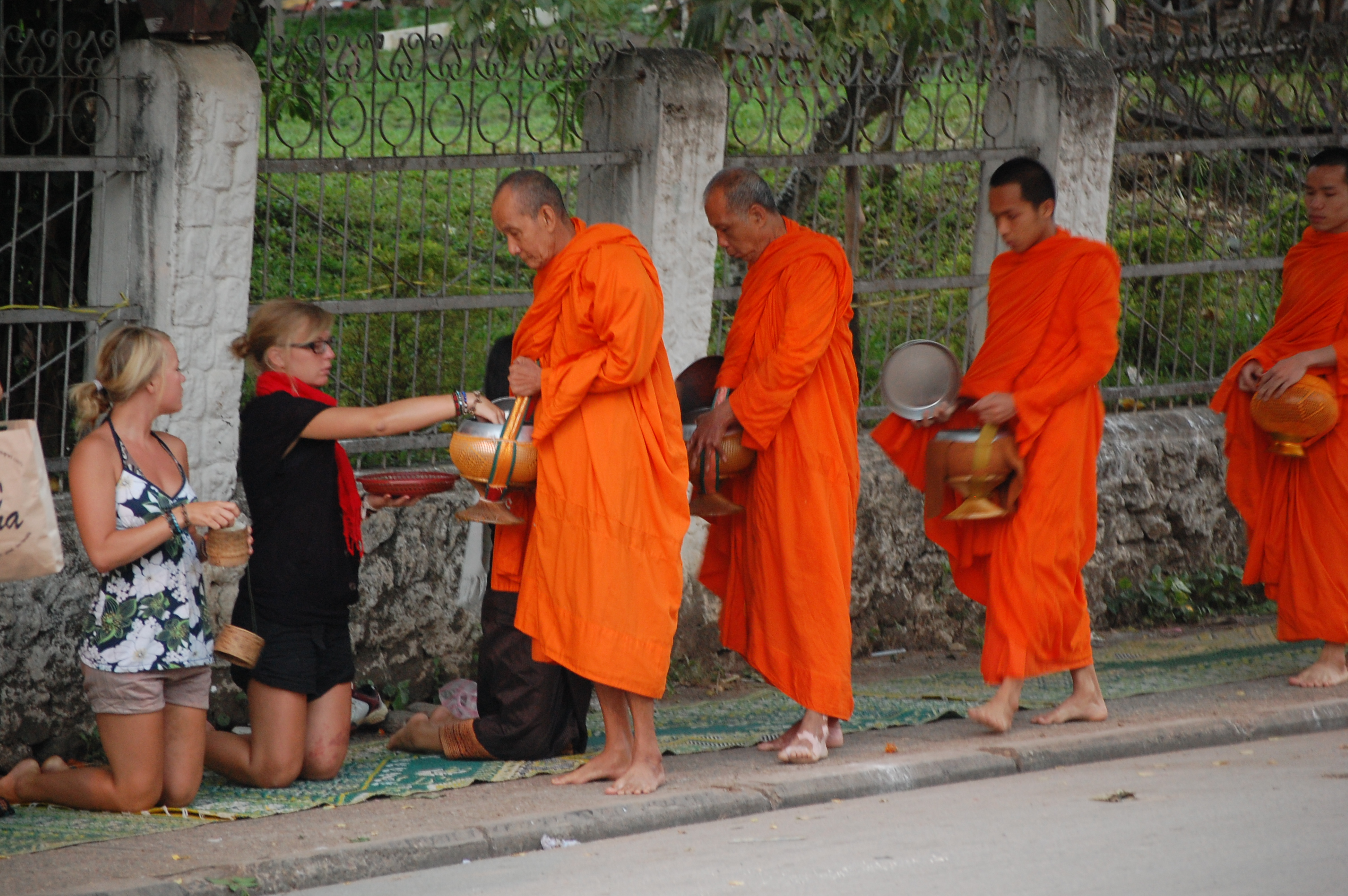 We decided to wake up early to witness the age old tradition of collecting alms. The monks walk around every morning around 6am and collect food from the community at large. I decided to play photographer while Hannah and Joanna paid their respects.